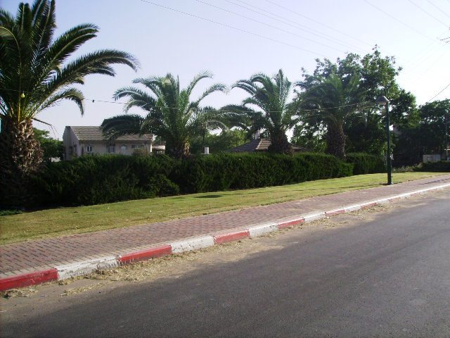 Enterance of Moshav Hatzav, Israel